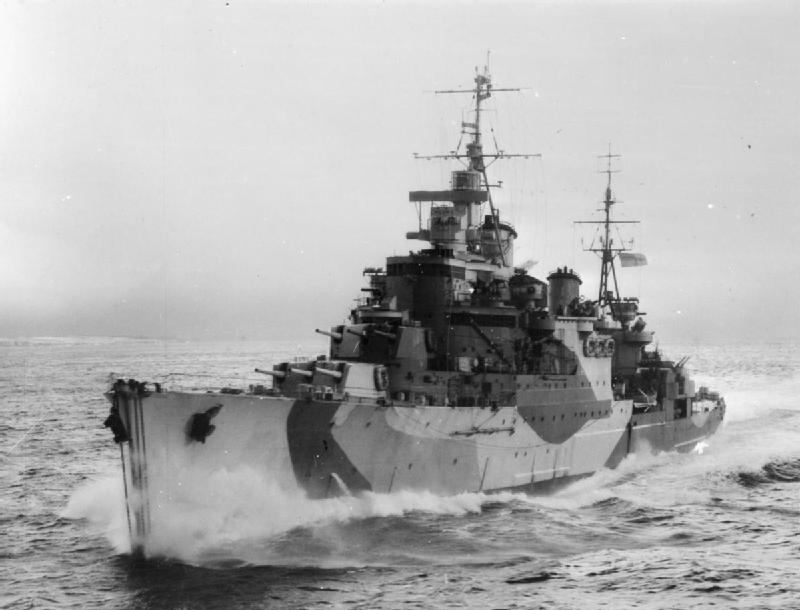 British cruiser HMS BIRMINGHAM underway at speed